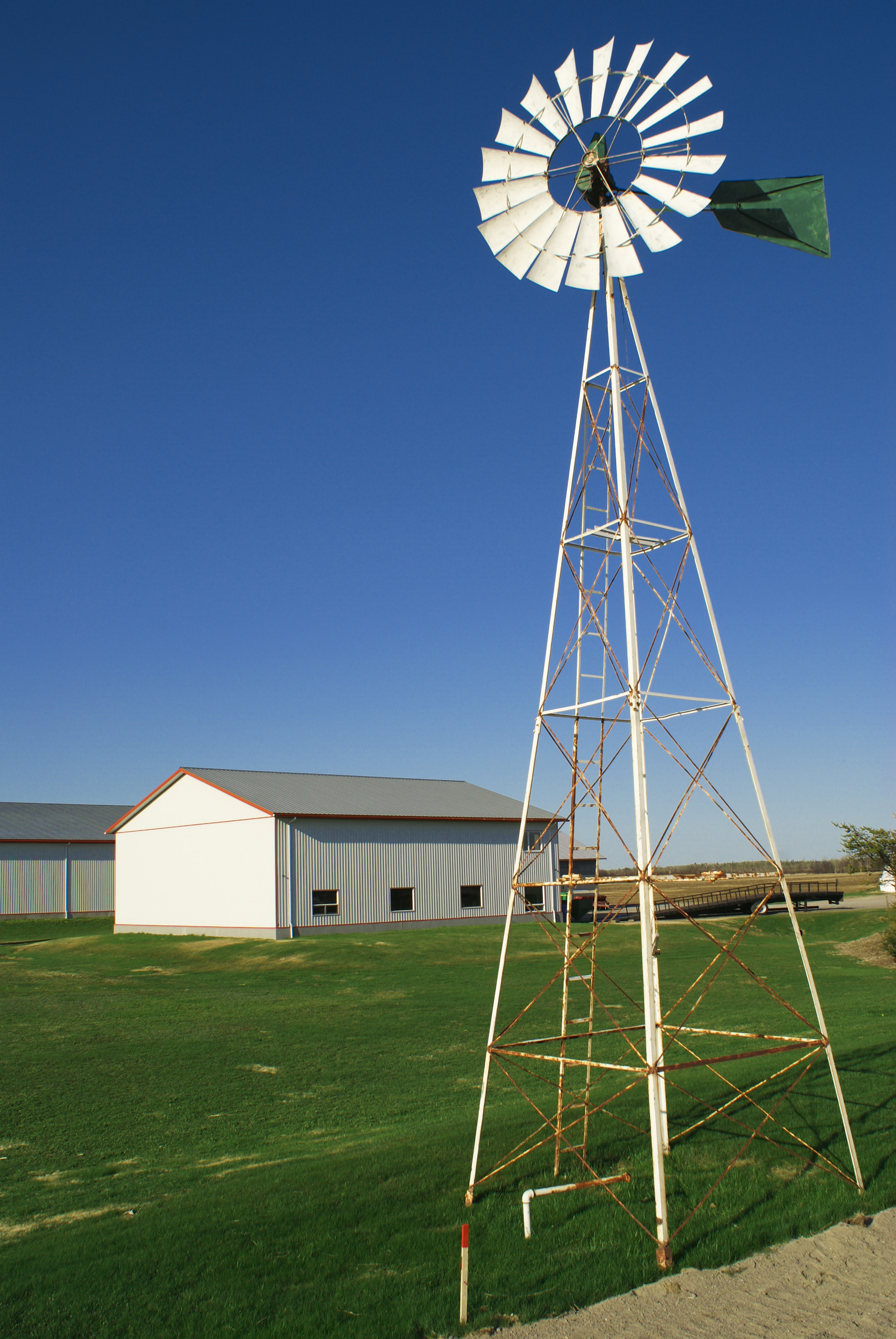 Windmill in Péribonka, Quebec, Canada